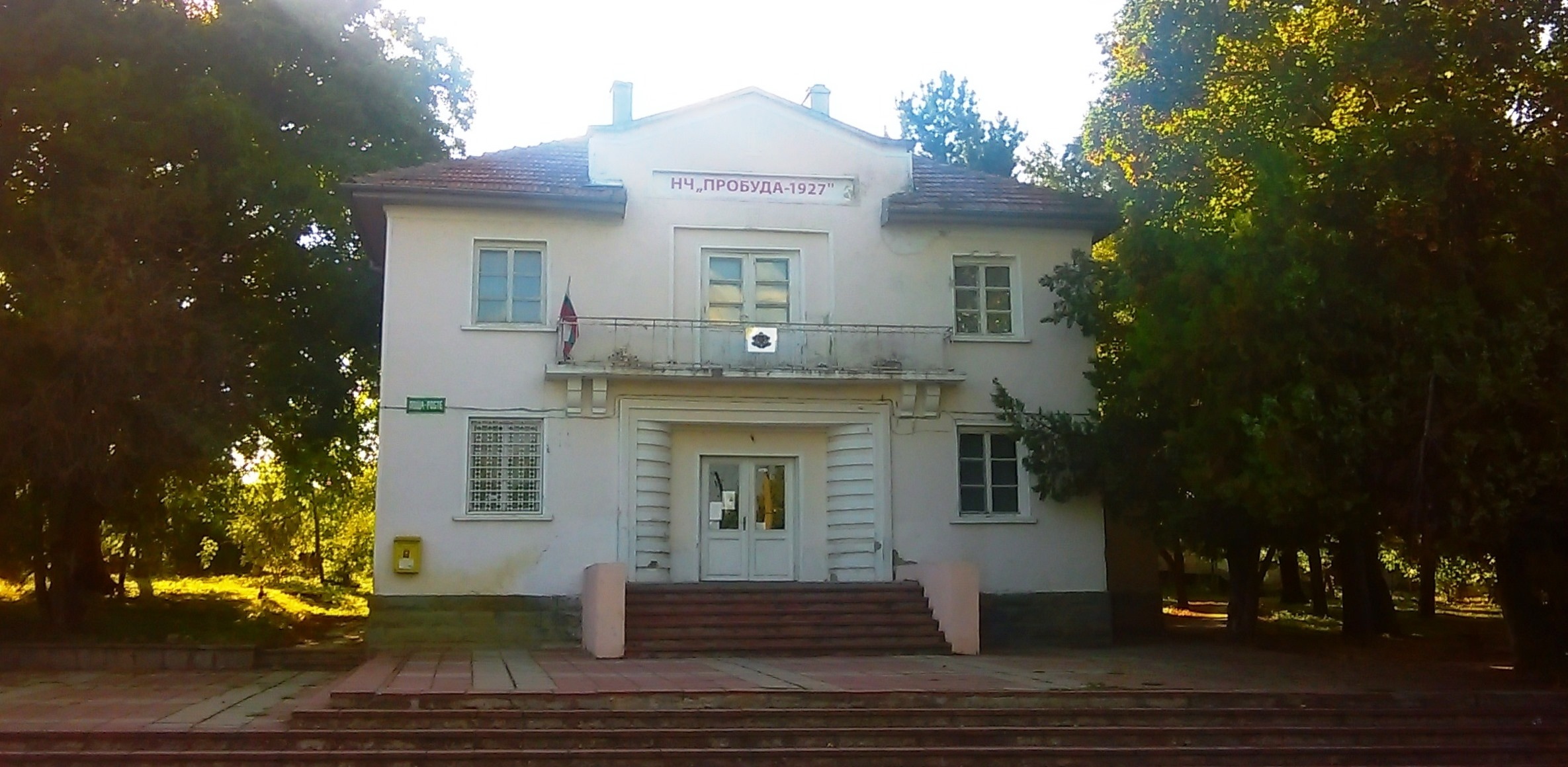 Lycaeum in Radko Dimitrievo, Shumen province, Bulgaria